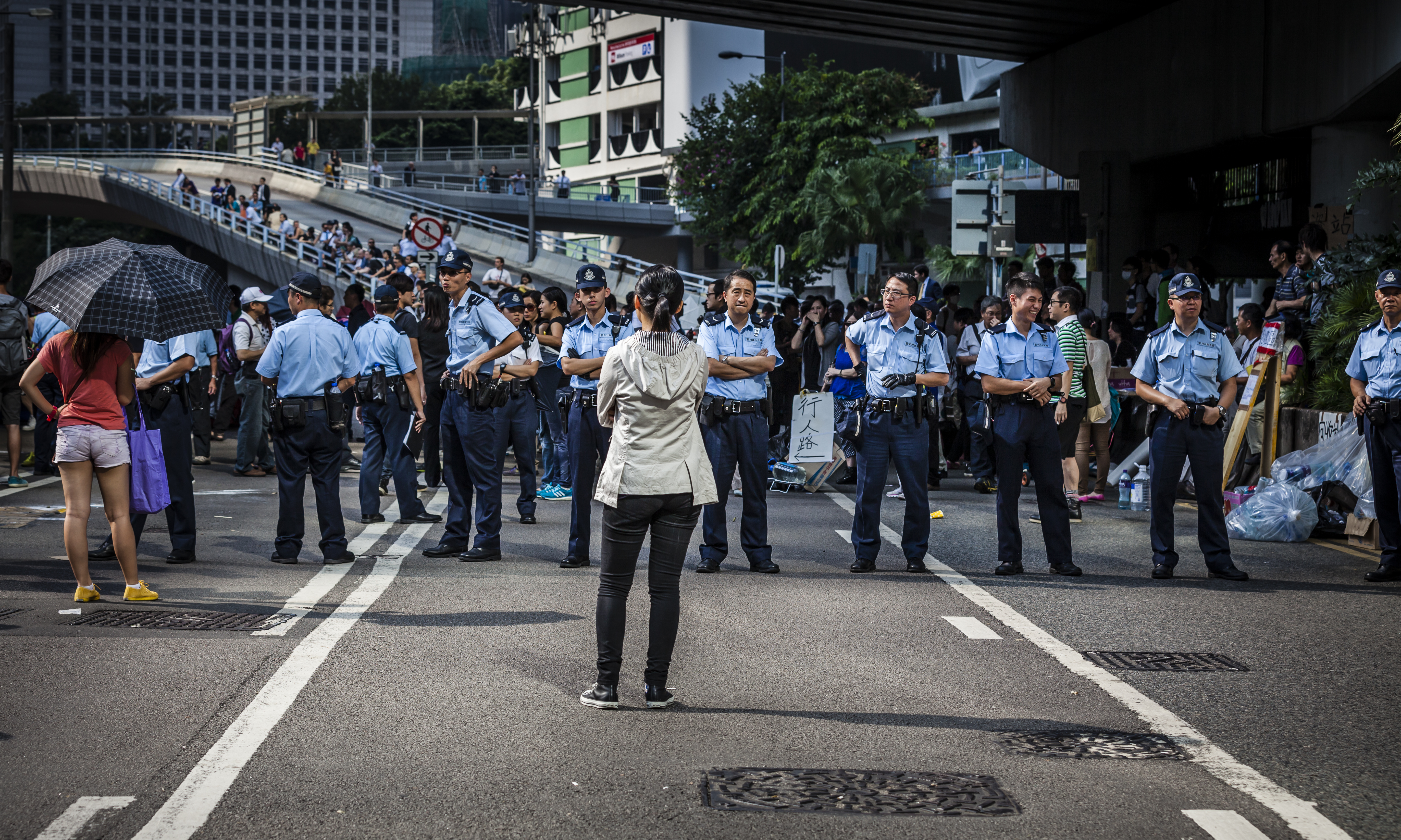 Umbrella Revolution Protesters in Queensroad